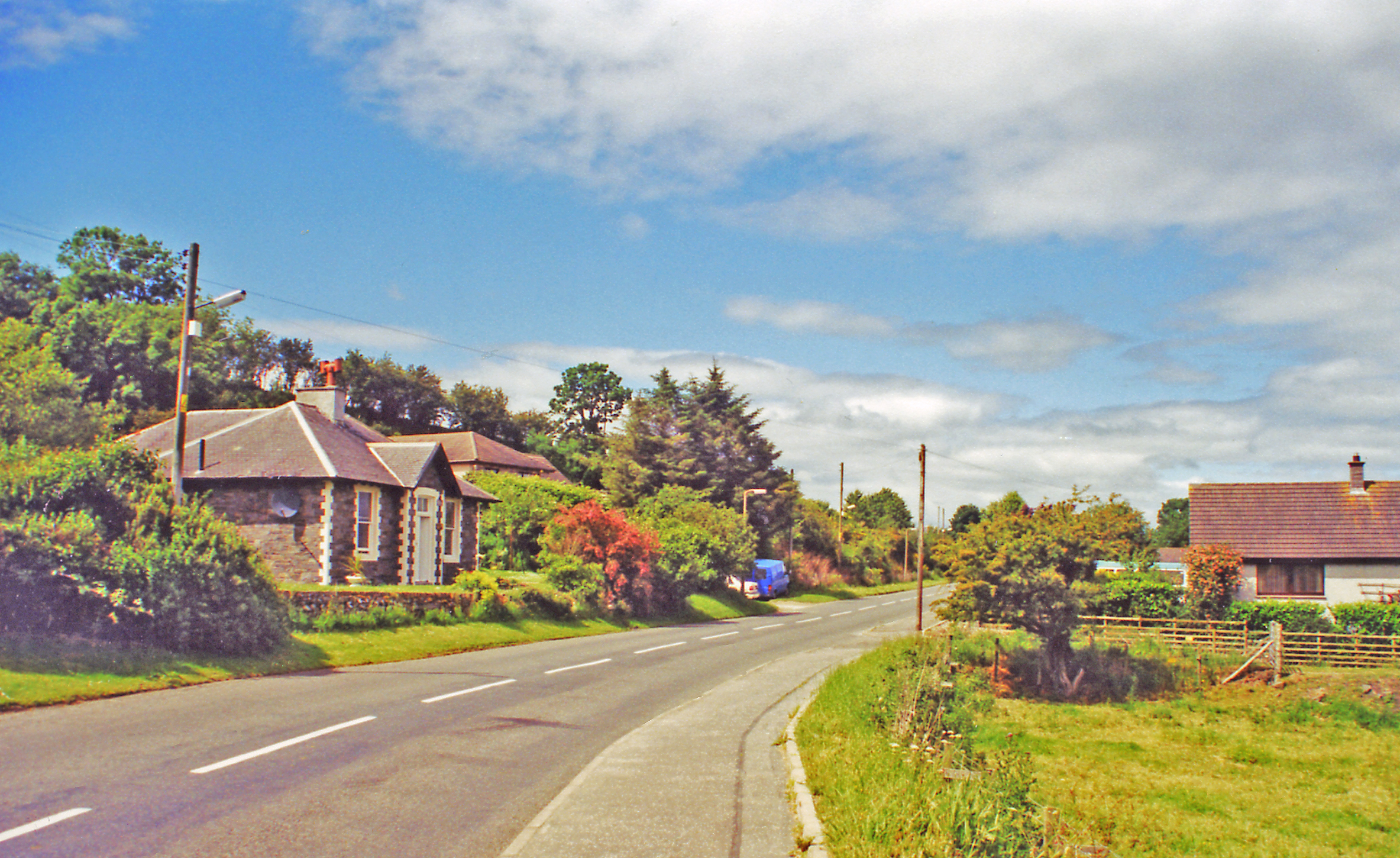 Former station at Kirkinner, 2000. View northward on the A746, towards Newton Stewart: ex-Portpatrick & Wigtownshire (CR, GSWR, LNWR & MR) Joint branch Newton Stewart - Wigtown, the station having been closed along with the branch passenger service since 25/9/50, but goods continued to Whithorn until 5/10/64 (calling here until 5/10/59